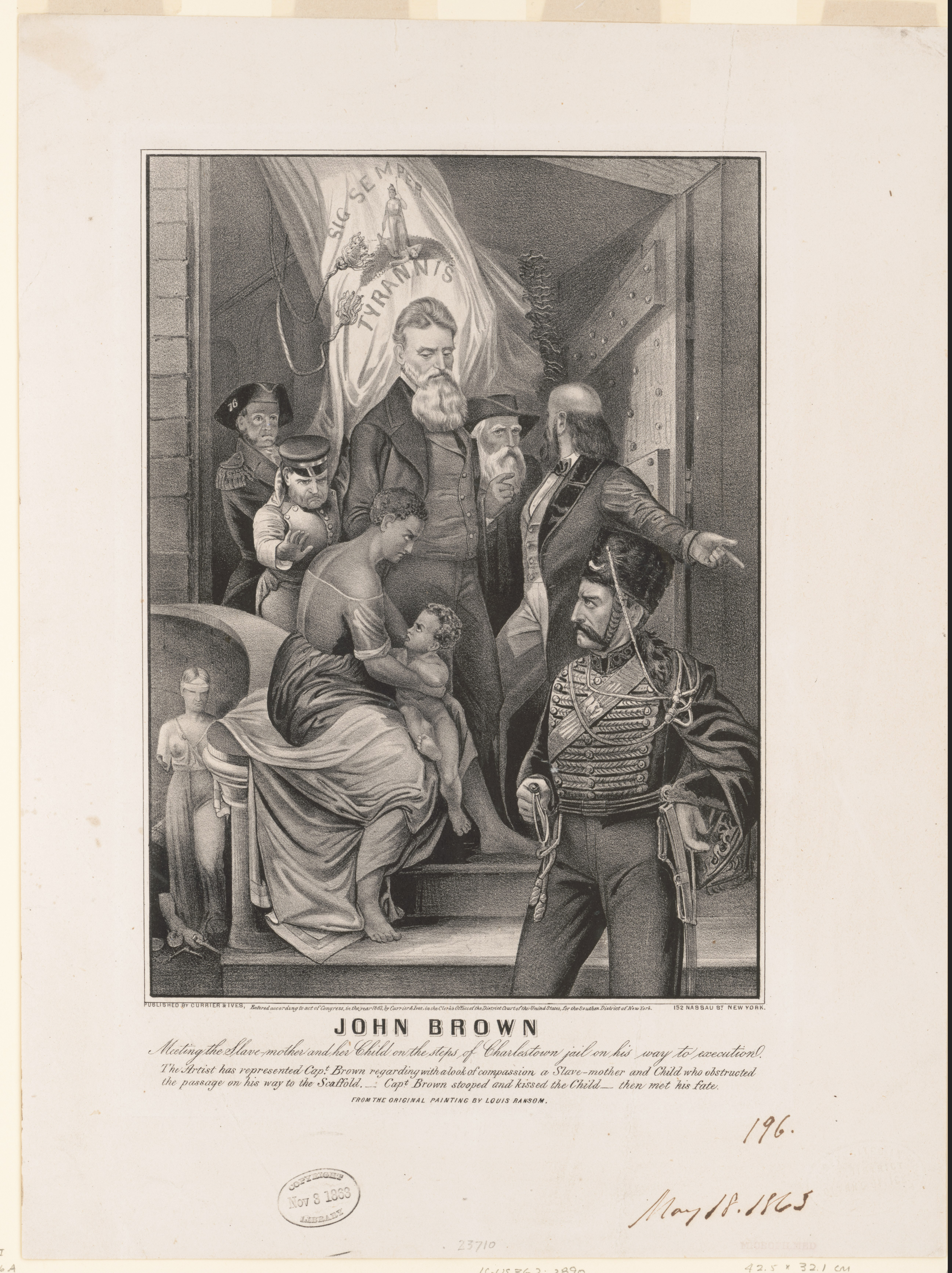 Title: John Brown. Meeting the slave-mother and her child on the steps of Charlestown jail on his way to execution Abstract: Issued in the North during the Civil War, the melodramatic portrayal of an apocryphal incident from the life of John Brown must have had unmistakable propagandistic overtones. In actuality a violent antislavery fanatic, Brown was convicted in 1859 of treason, inciting slave rebellion, and murder in his abortive attempt to seize the federal arsenal at Harpers Ferry and ignite an armed slave insurrection in the South. Yet through his trial and execution at Charles Town, Virginia, in December 1859, Brown became for many Northerners a martyr of the abolitionist cause. Here the artist shows Brown calmly descending the steps of the Charles Town jail, hands tied behind his back. "Regarding with a look of compassion a Slave-mother and Child who obstructed the passage on his way to the Scaffold. --Capt. Brown stooped and kissed the Child--then met his fate." The strikingly madonna-like slave woman is seated on a stone railing, holding an equally Christ-like infant. One of Brown's guards reaches forward, about to push her away. In the foreground a mustachioed and elegantly uniformed soldier waits impatiently, hand on his sword hilt. Behind Brown a figure from the American Revolution, wearing a tricornered hat emblazoned "76," watches with concern. The flag of the state of Virginia with the motto "Sic semper tyrannis" flies prominently above Brown's head. A statue of Justice, with its arms and scales broken, stands forgotten behind the railing at left. Currier & Ives issued another version of the print (Gale 3515), minus the clearly sectionalist references, in 1870. Physical description: 1 print on wove paper : lithograph ; image 33 x 21.8 cm. Notes: "From the original painting by Louis Ransom."; Published in: American political prints, 1766-1876 / Bernard F. Reilly. Boston : G.K. Hall, 1991, entry 1863-2.; Title from item.